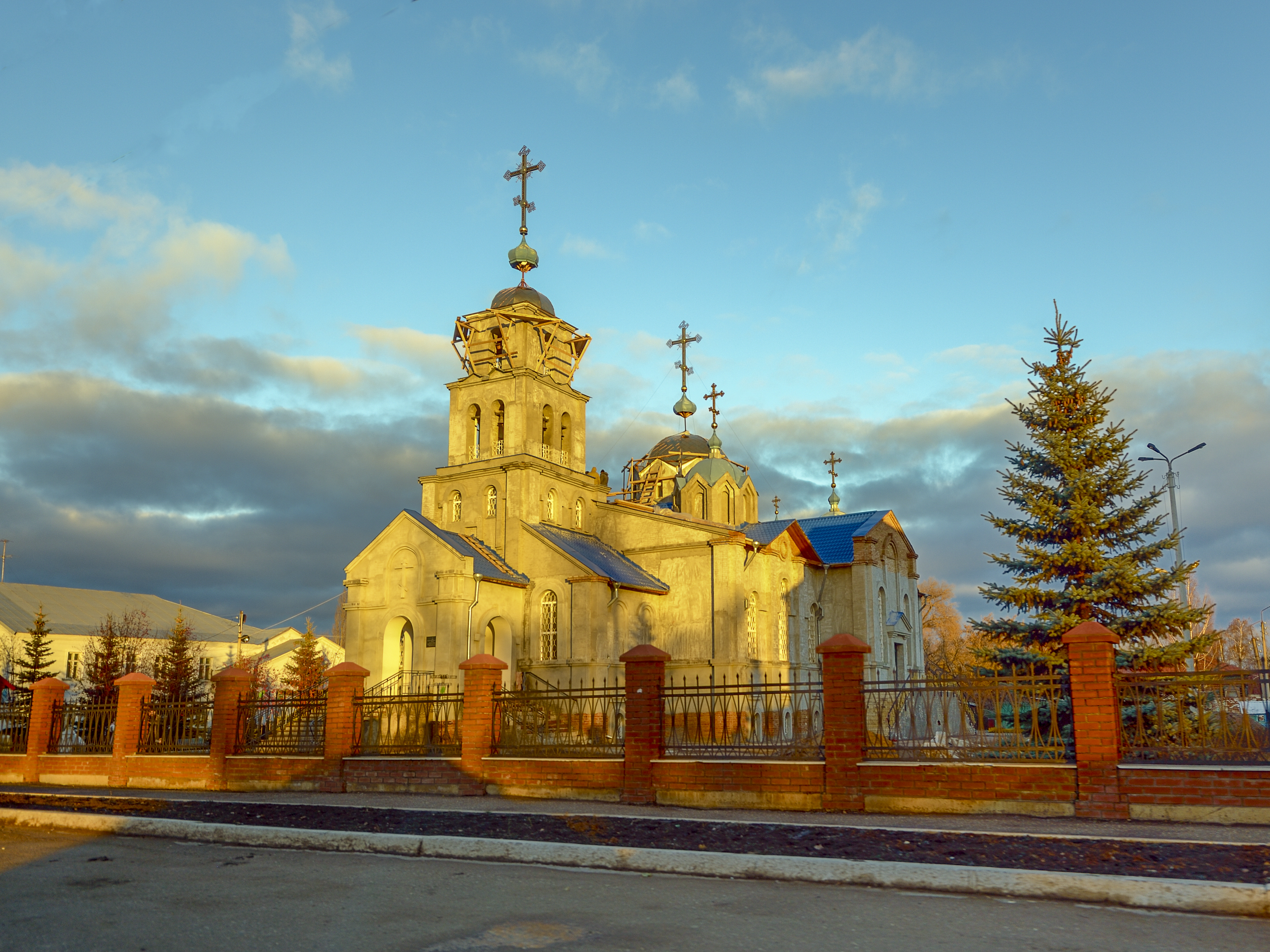 Meleuz